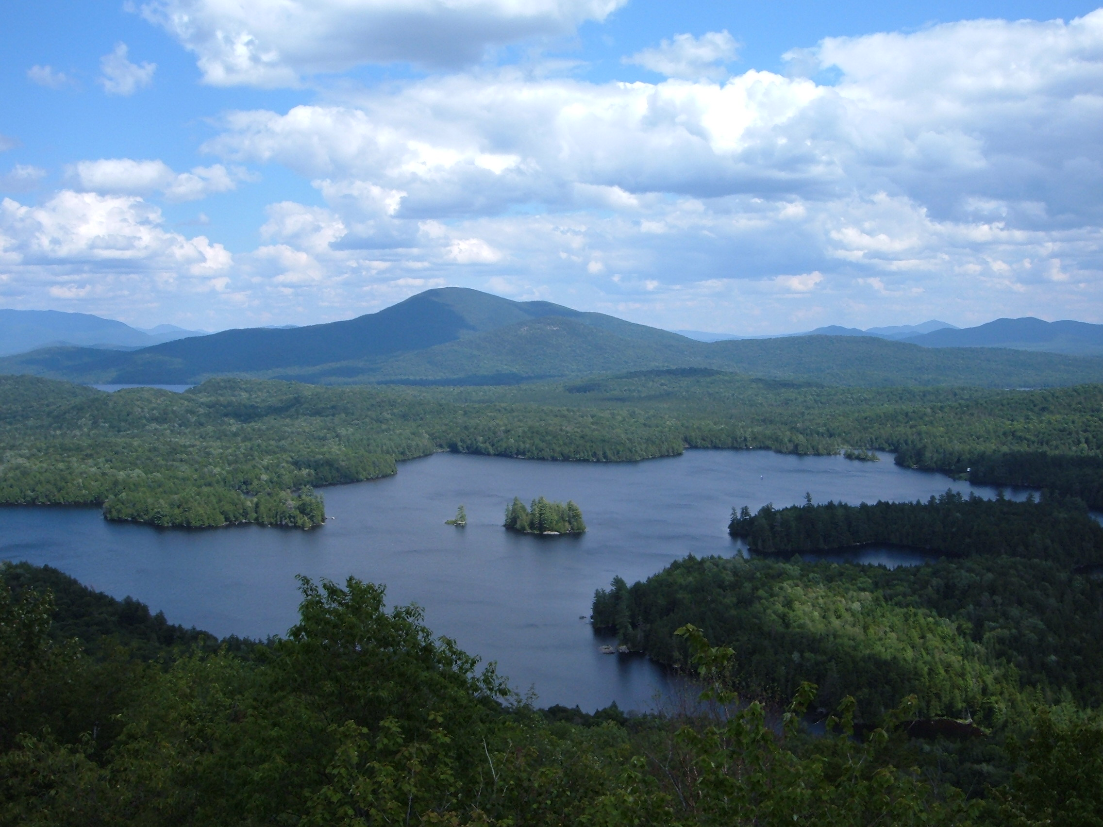 Cedarlands Scout Reservation from OA mountain